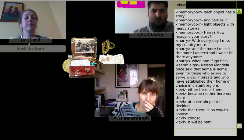 Etheatre and collaborators performing at the UpStage 10th Birthday Party, 9 January 2014